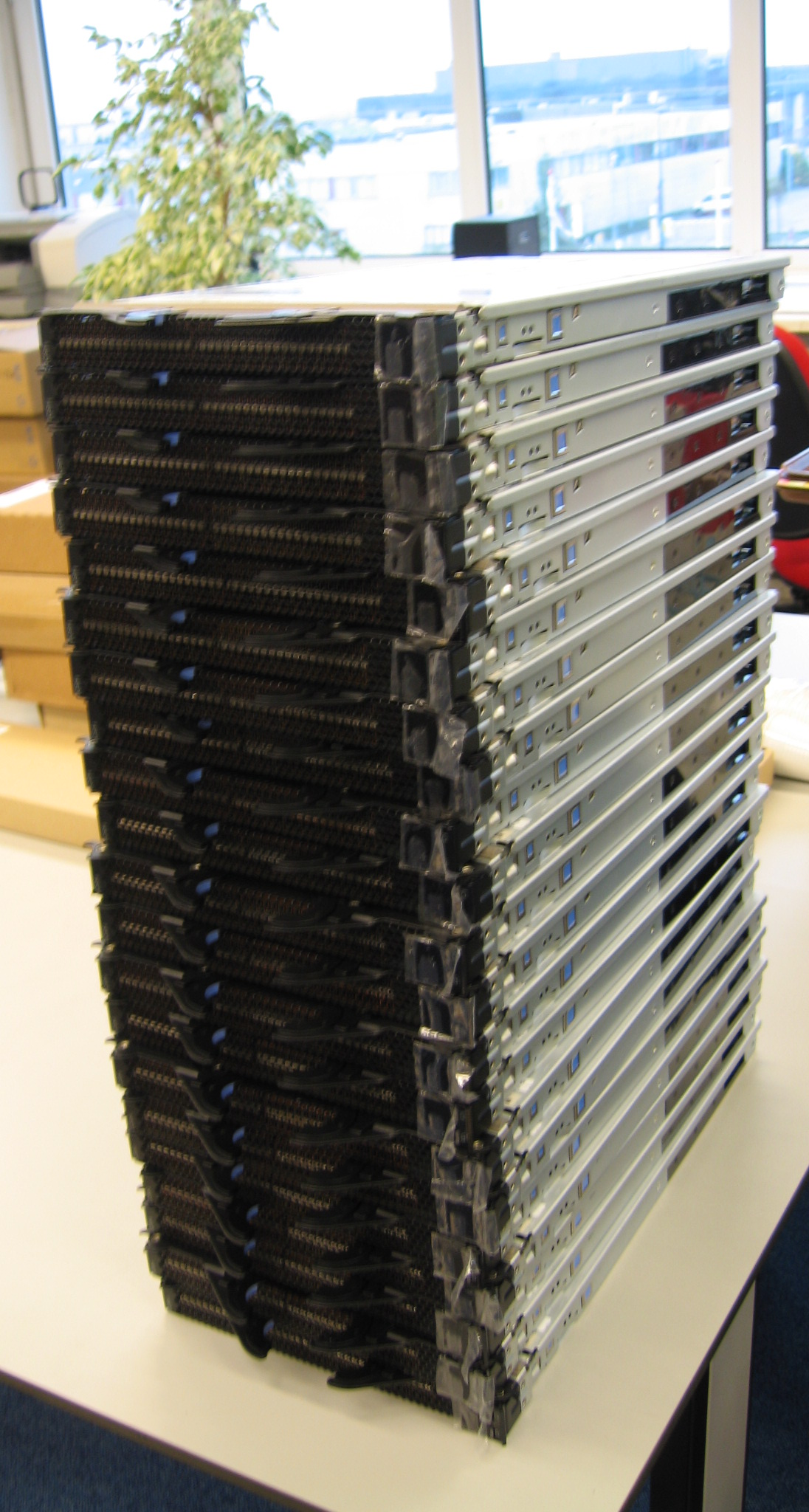 A pile of IBM HS20 blade servers.